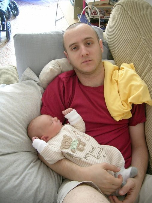 days at the hospital were long and tiring, so yoni looks a bit exhausted here. little did we know what we were in for...